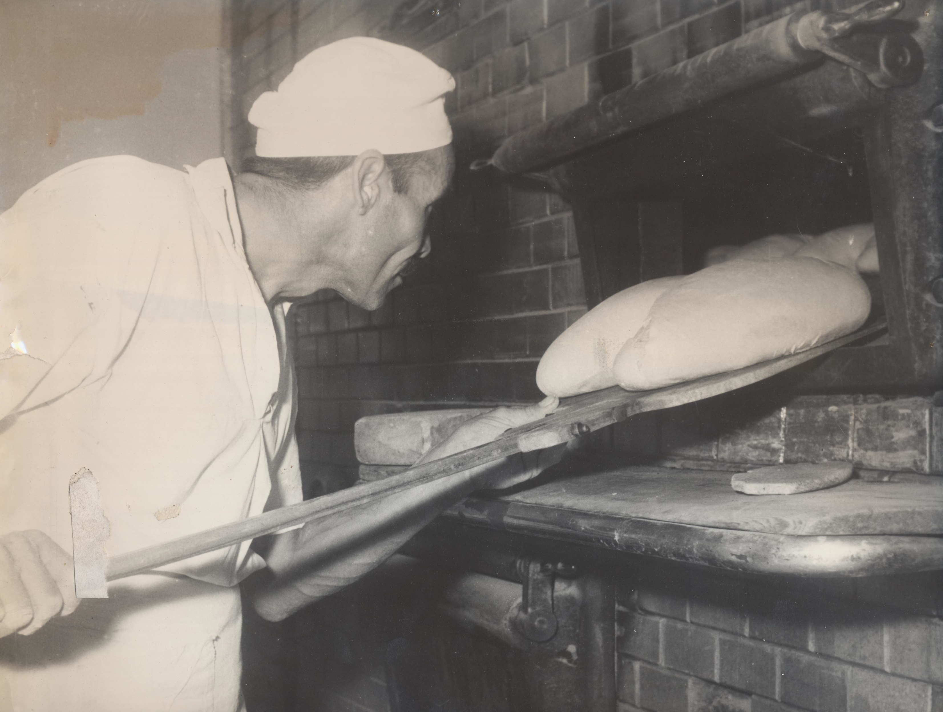 Roasting of bread in the company Blagoje Kostic Crni Marko in Pirot 1961.